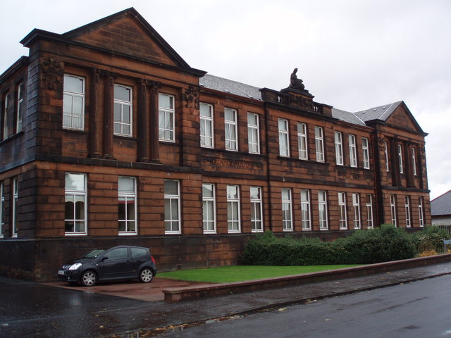 Old High School Building that used to house Grangemouth High School - now multiple flats.